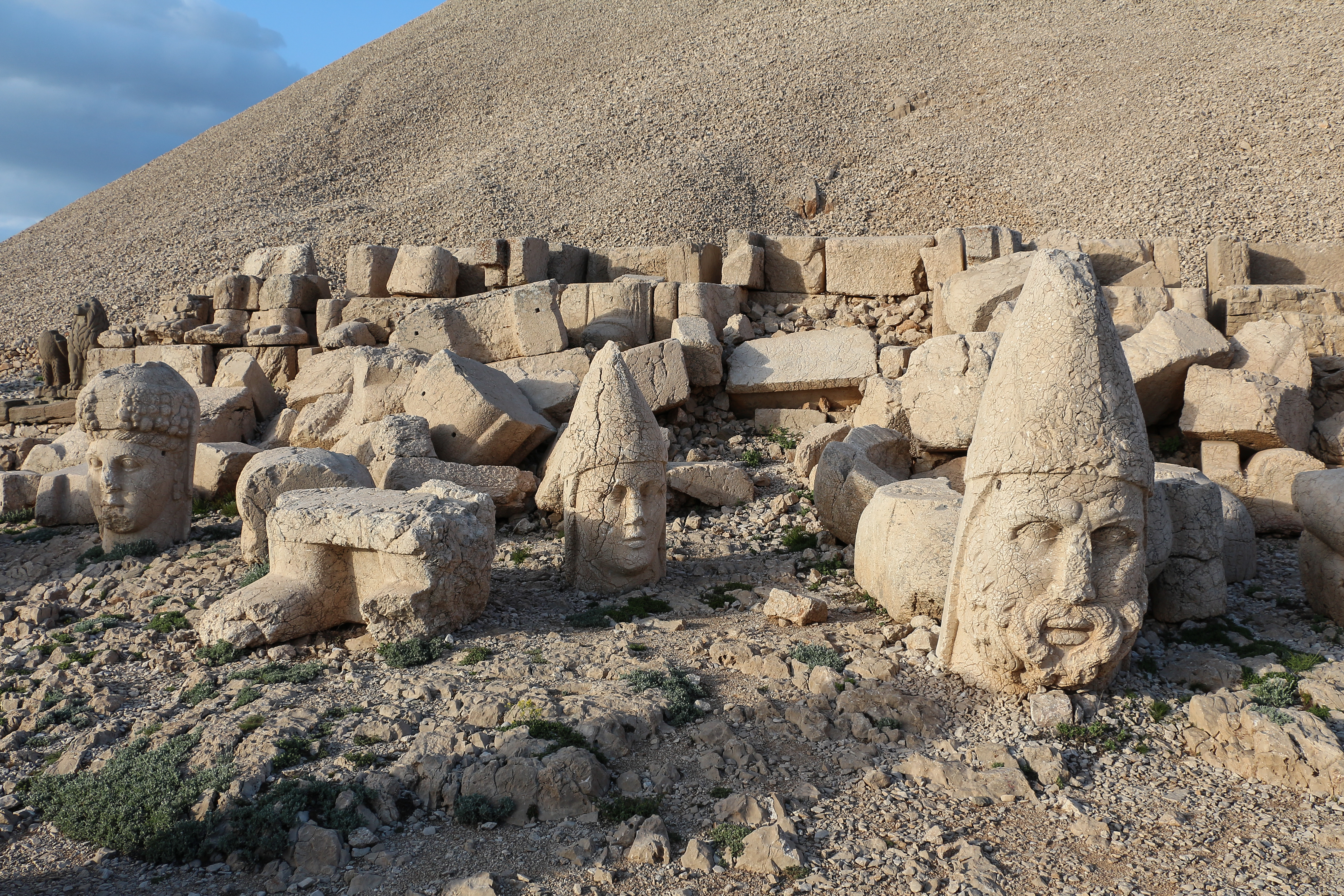 Western terrace of the Nemrut Dağı, Turkey